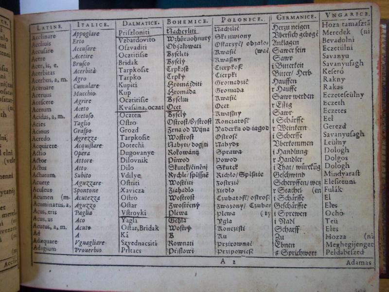 Petrus Lodereckerus. Dictionarium septem diversarum linguarum, Videlecit Latine, Italice, Dalmatice, Bohemice, Polonice, Germanice et Ungarice, Prague 1605